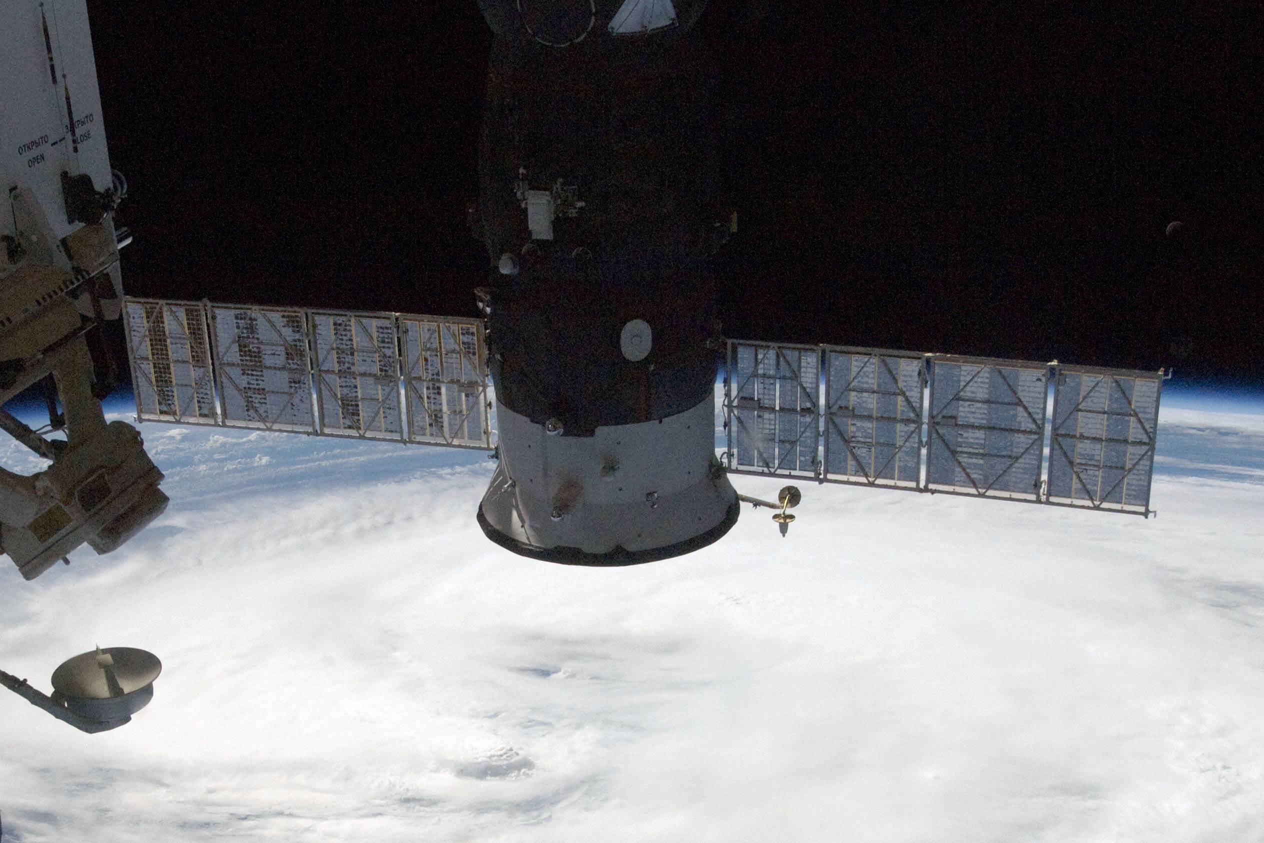 Partially obstructed by two Russian spacecraft in the foreground, Tropical Storm Leslie is clearly seen in the Atlantic Ocean on Sept. 9, 2012, as photographed by one of the Expedition 32 crew members aboard the International Space Station. At the time of the photo, Leslie was centered near 33.4 degrees north latitude and 62.1 degrees west longitude (approximately 175 miles east-northeast of Bermuda) moving northward at 14 miles per hour with winds of 60 miles per hour.